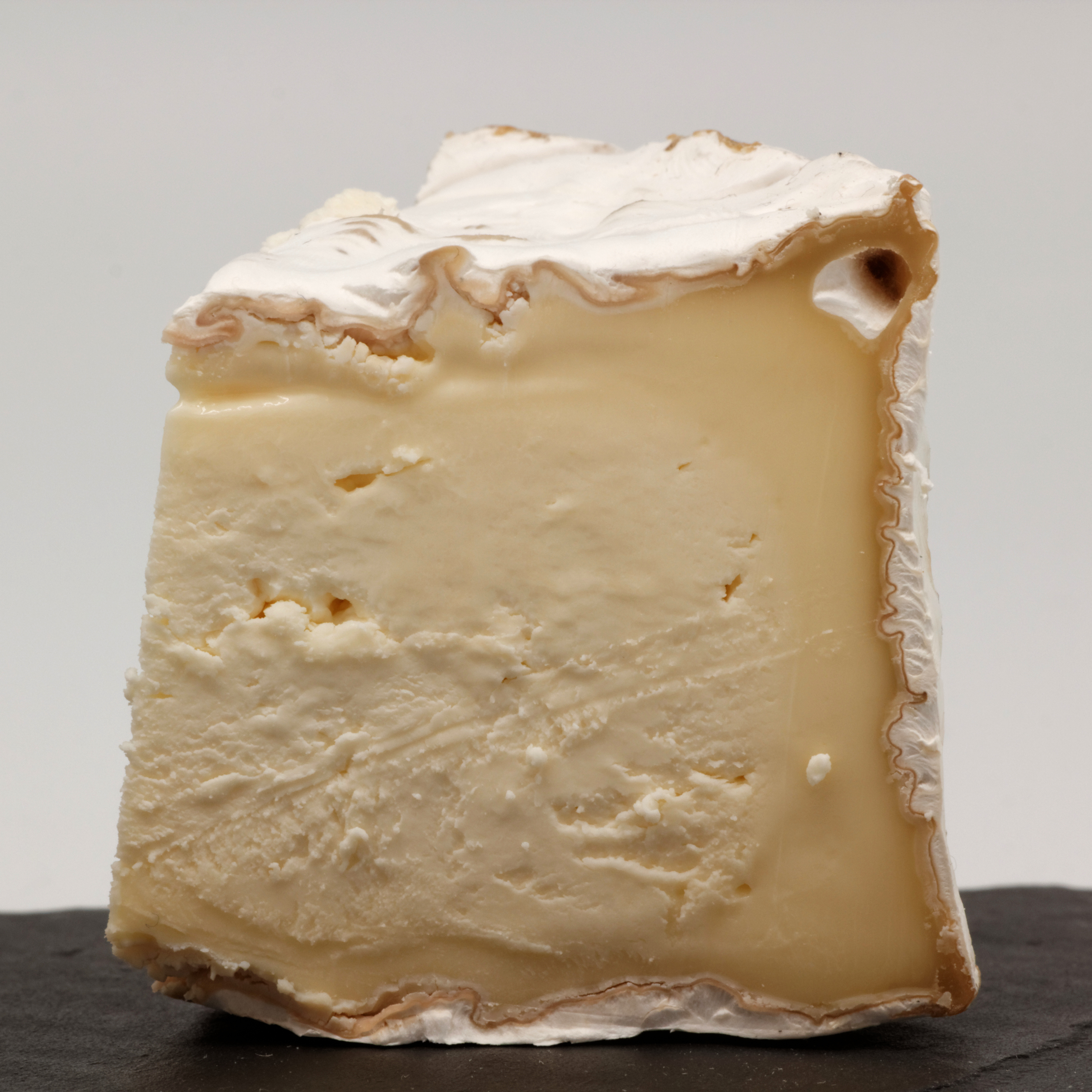 Chaource